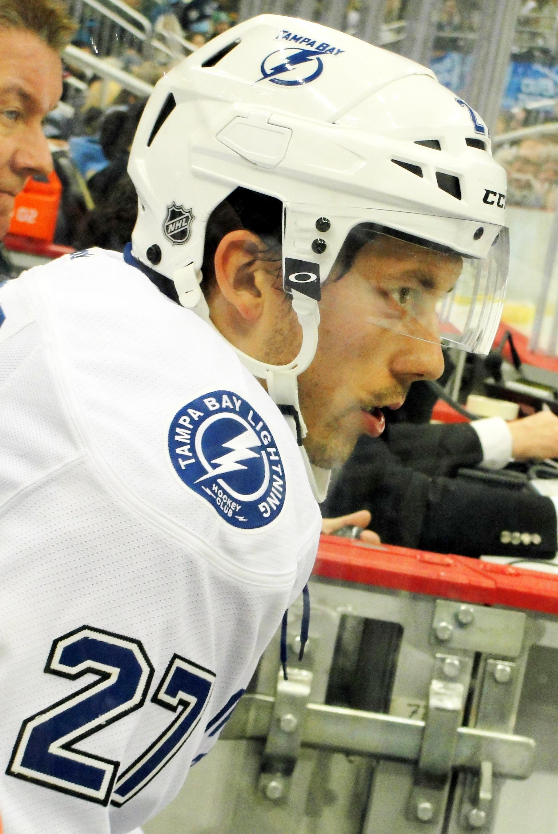 Bruno Gervais of the Tampa Bay Lightning during a February 12, 2012 game against the Pittsburgh Penguins at Consol Energy Center in Pittsburgh, PA.